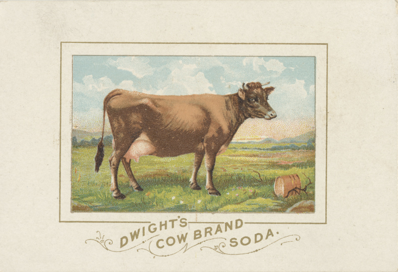 Persistent URL: Subject (TGM): Cows; Baking powder; Cookery; Bread; Food industry; Flour & meal industry